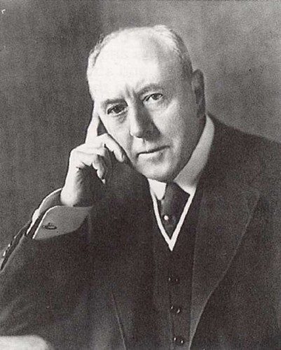 A photo of Sir Thomas Sutherland (1834—1922), dated approximately 1890(?)